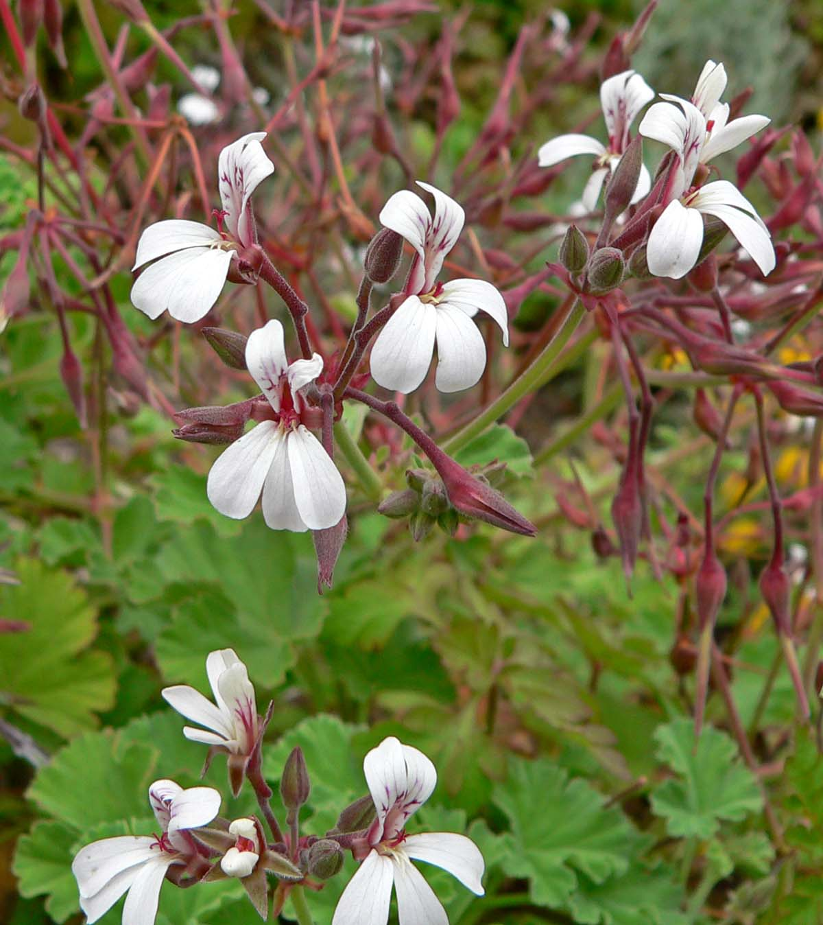 Photo of Pelargonium odoratissimum at the San Francisco Botanical Garden